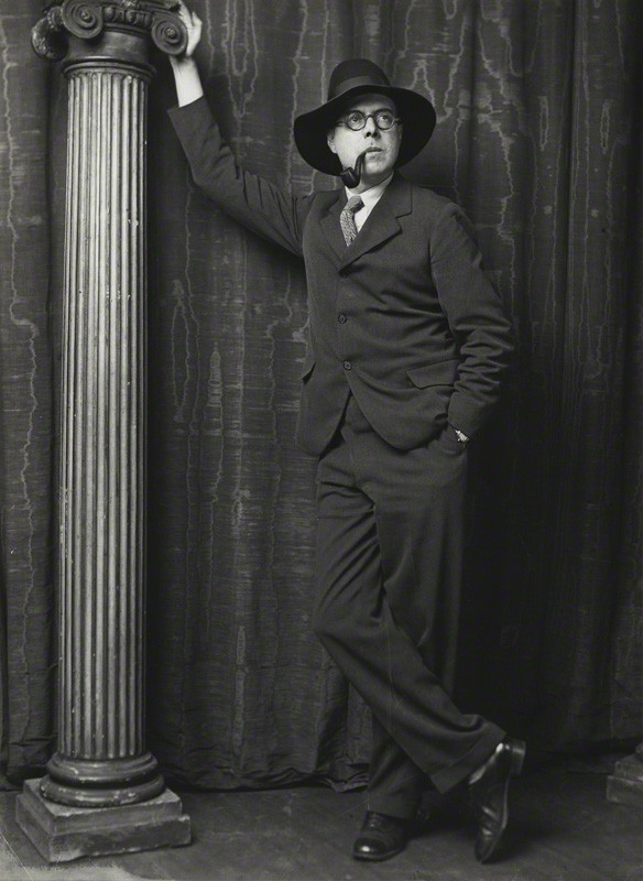 Portrait of Wyndham Lewis